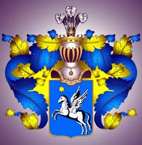 Coat of arms of the Soymonov family.